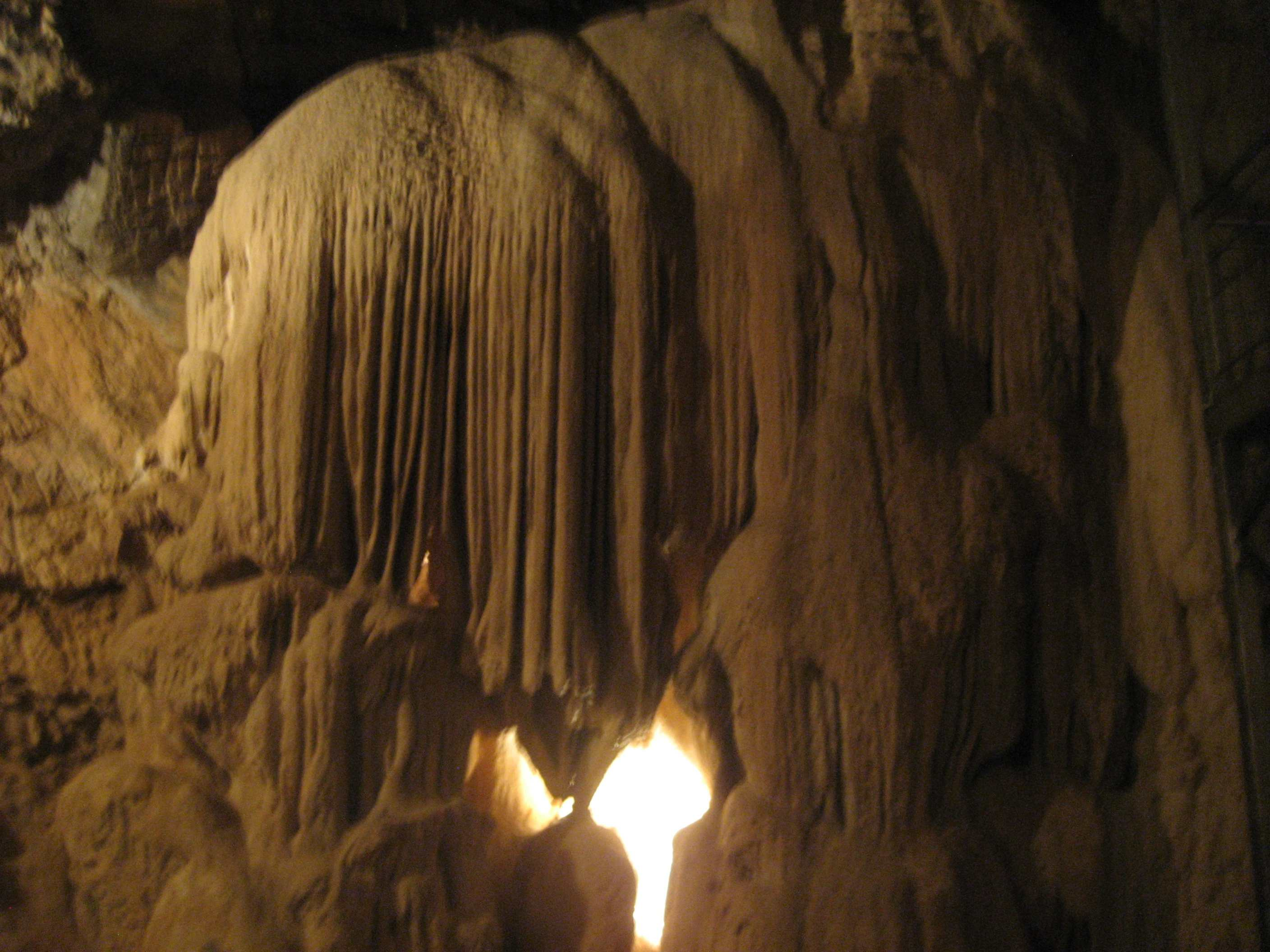 Cave Lokvarka, Croatia